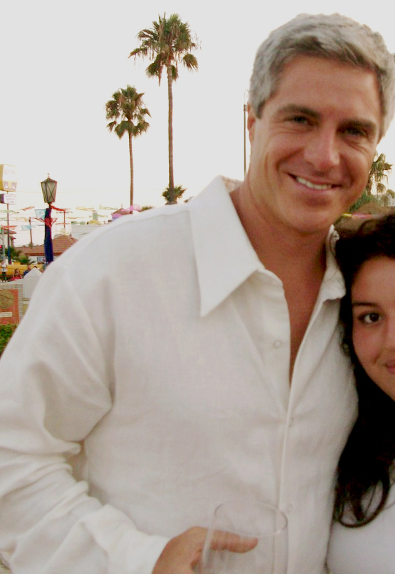 Lisardo Guarinos along with a fan "krengi" in the recordings of "Timeless love." Riviera Cultural Center, Ensenada, Baja California.